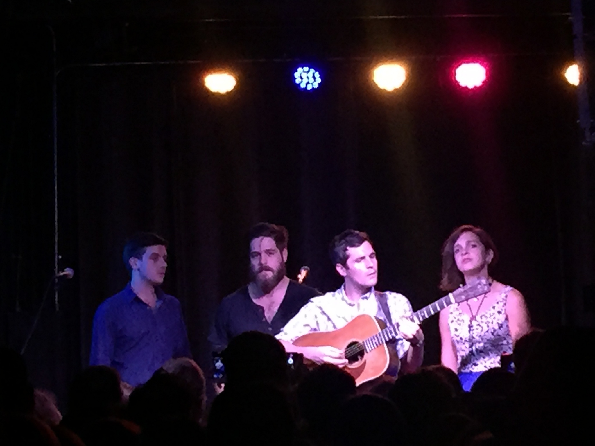 Mipso concert at Gypsy Sally's in Georgetown, Washington, DC, on September 12, 2015.